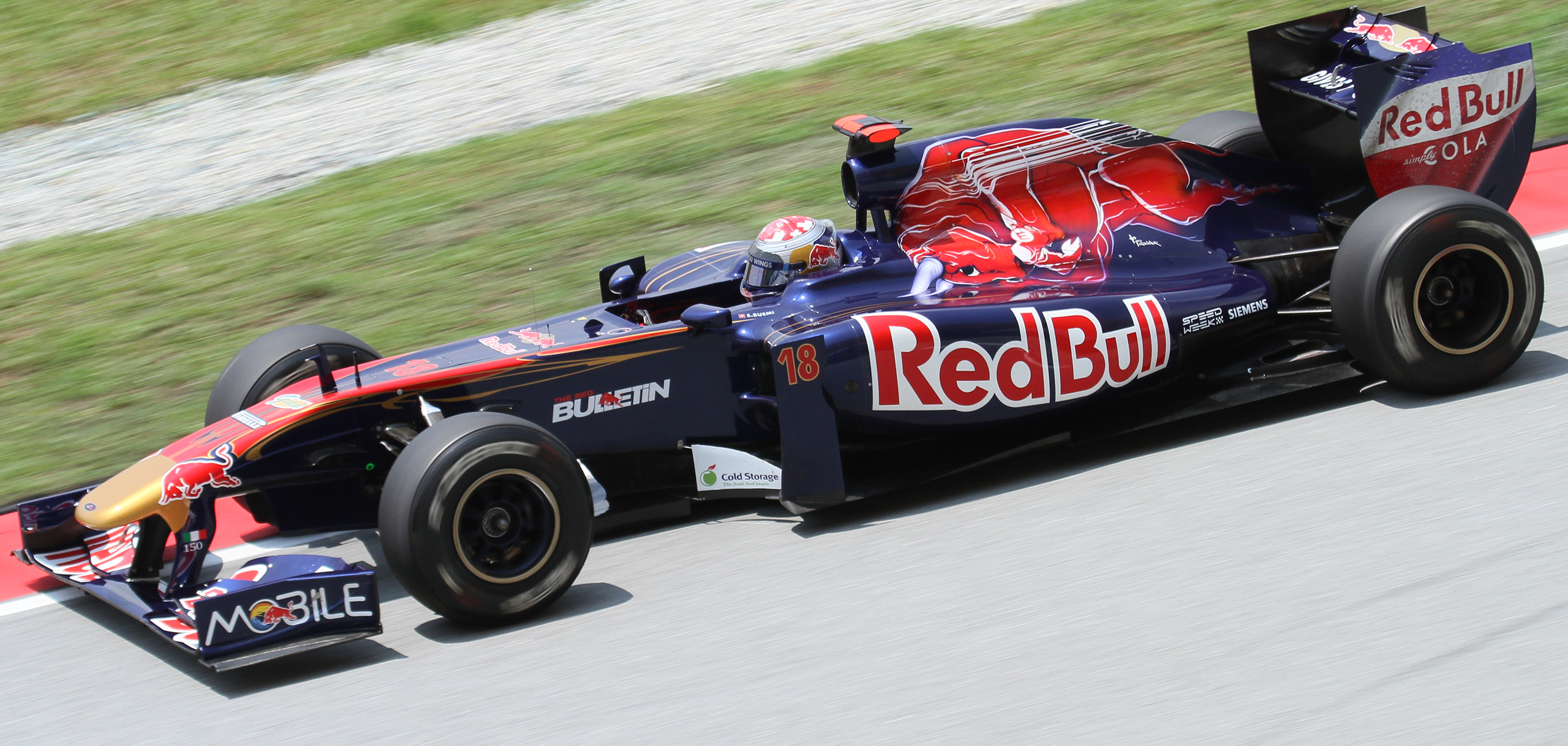 Formula One 2011 Rd.2 Malaysian GP: Sébastien Buemi (Toro Rosso) during the first practice session on Friday.